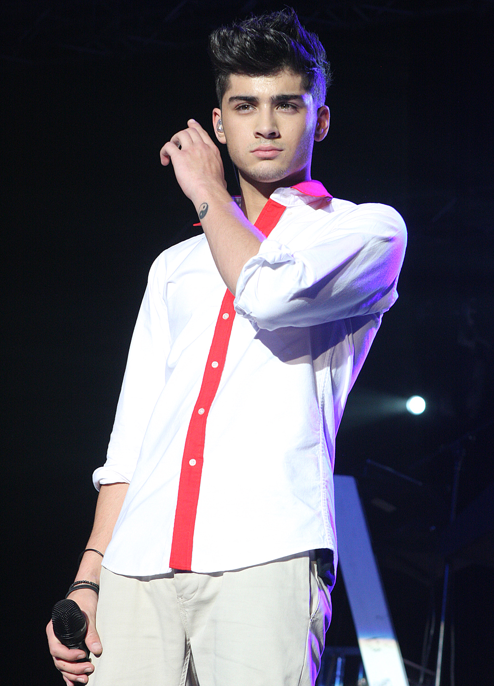 Zayn Malik at the One Direction performs at Hordern Pavilion, Moore Park, Sydney, Australia 2012.